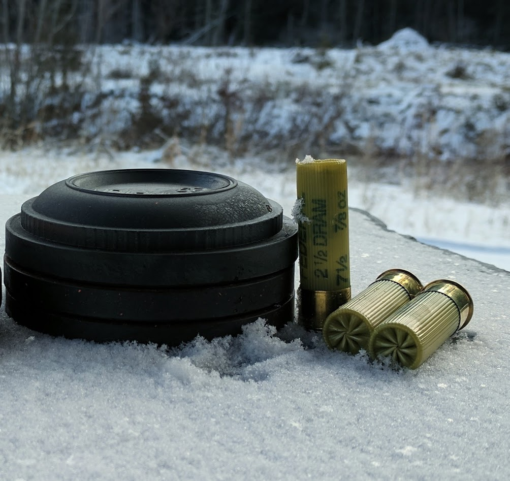 20 gauge rounds next to clays